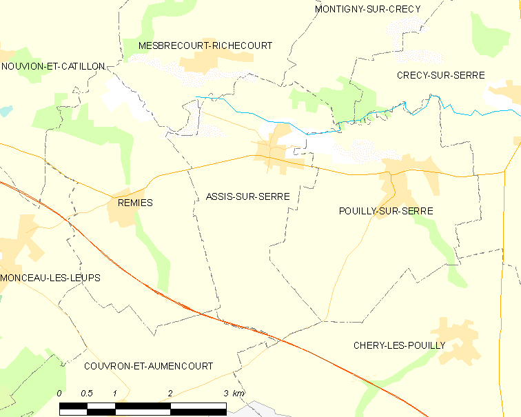 Map of French commune: Assis-sur-Serre Map commune FR insee code 02027.png